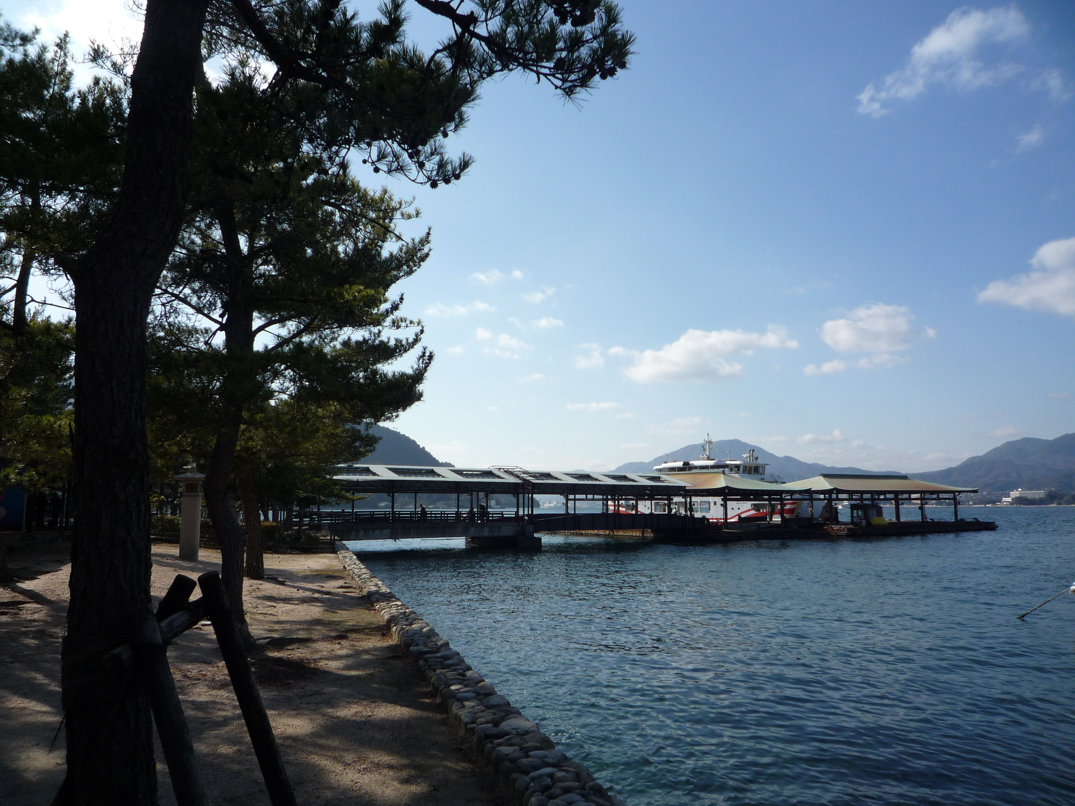 Miyajima Station of JR West Miyajima Ferry